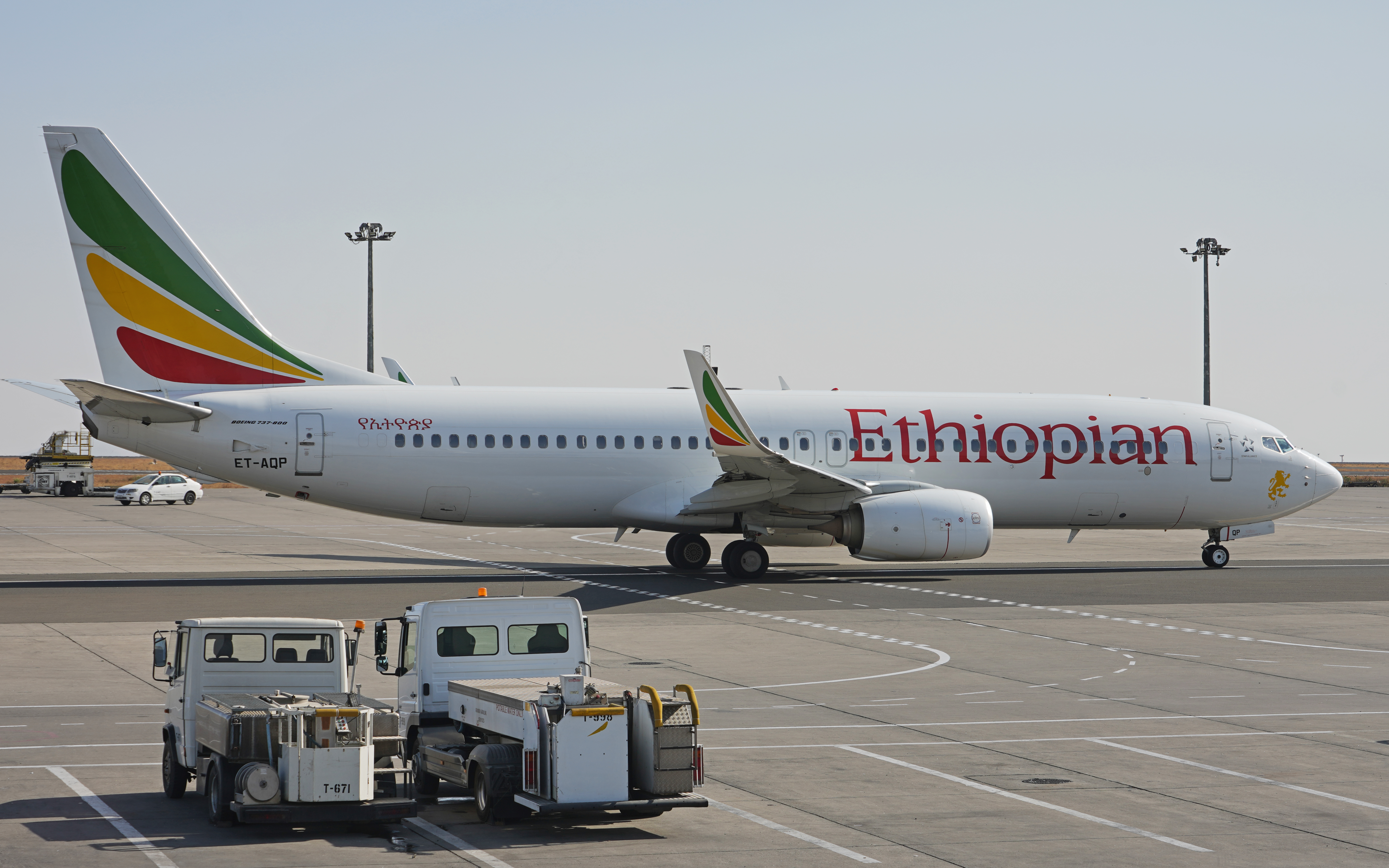 Aircraft ET-AQP of Ethiopian Airlines at Bole Int. Airport in Addis Ababa, Ethiopia